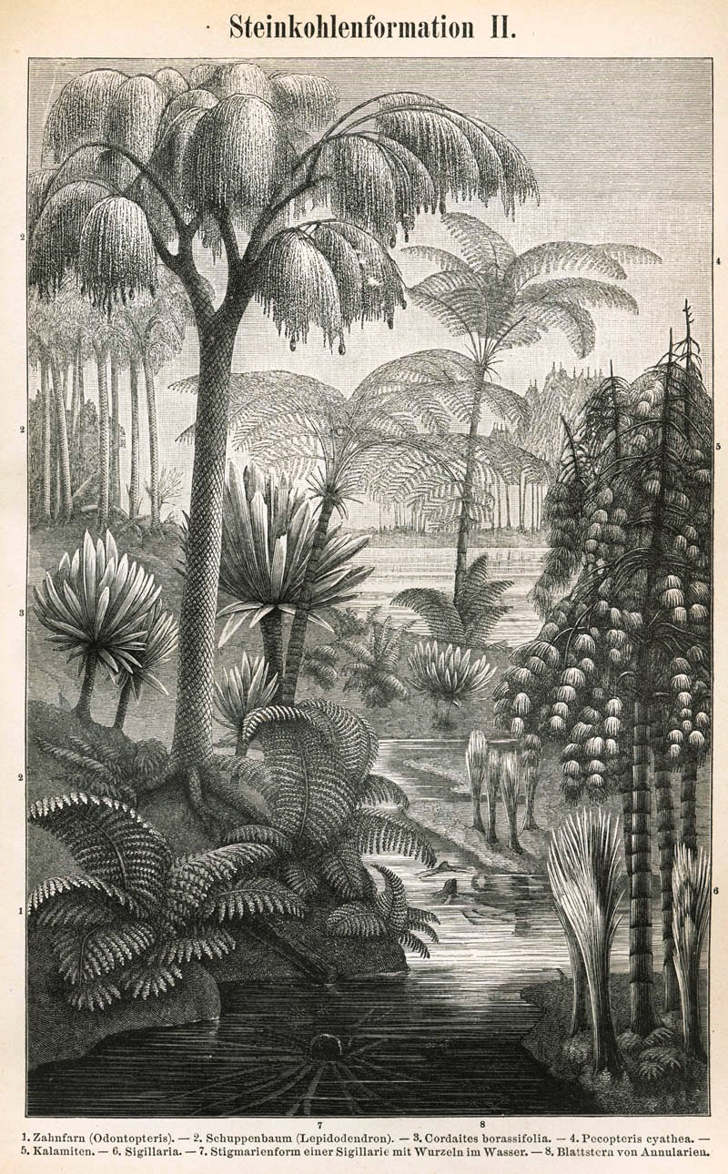 Plants of the Carboniferous age